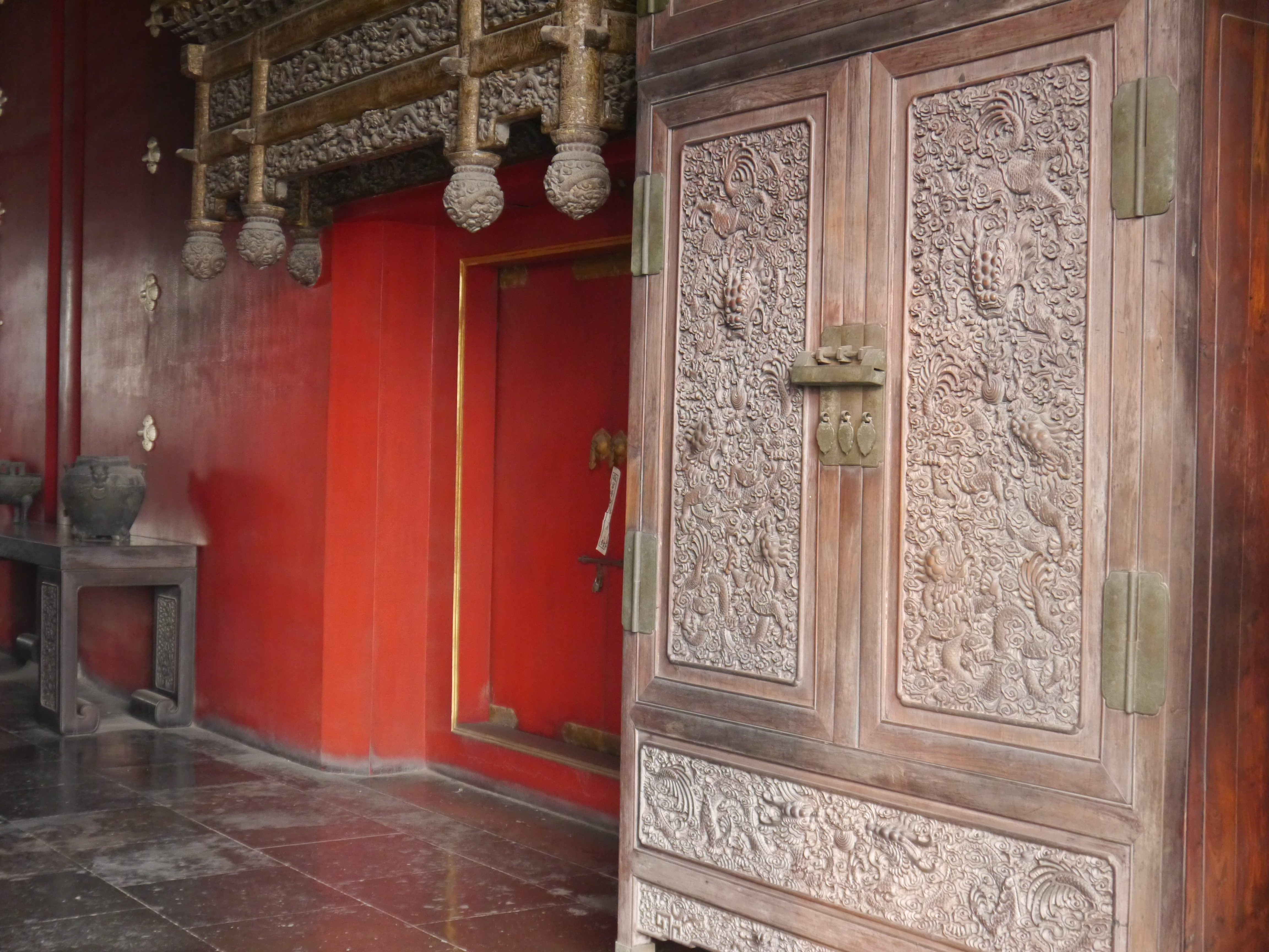 China, Beijing, Forbidden City.